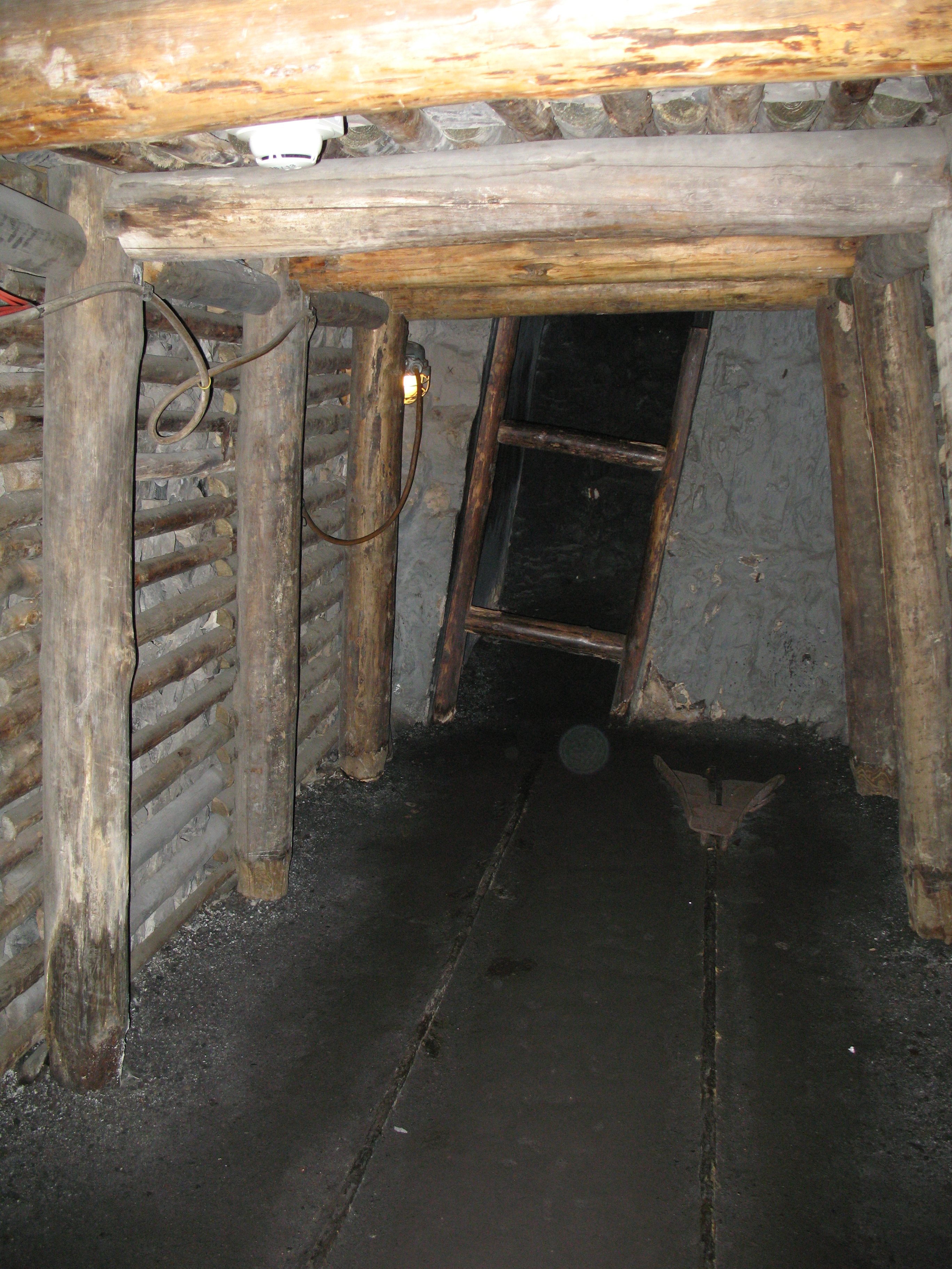 German Mining Museum in Bochum